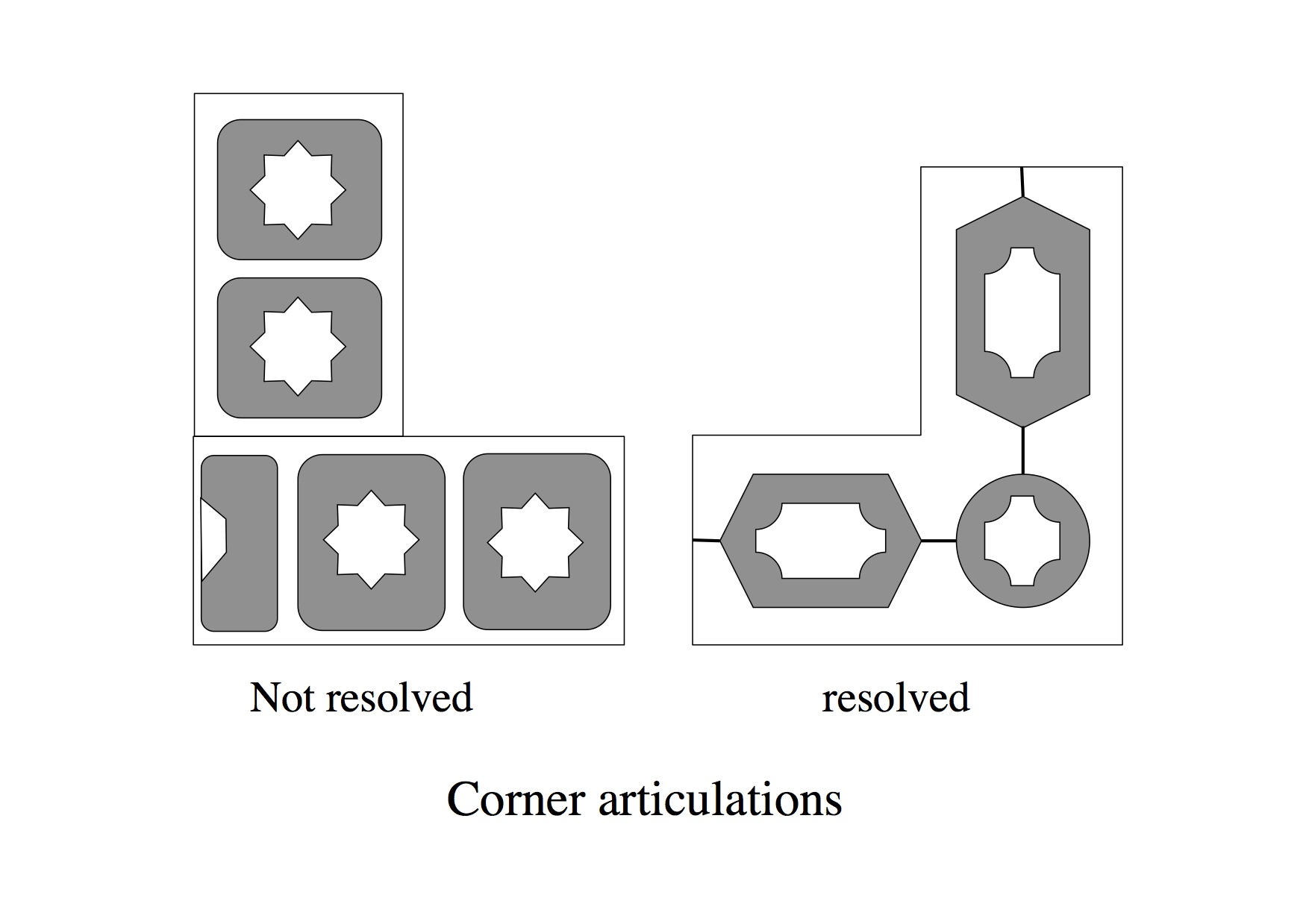 Corner articulations in Oriental rugs, jpg format